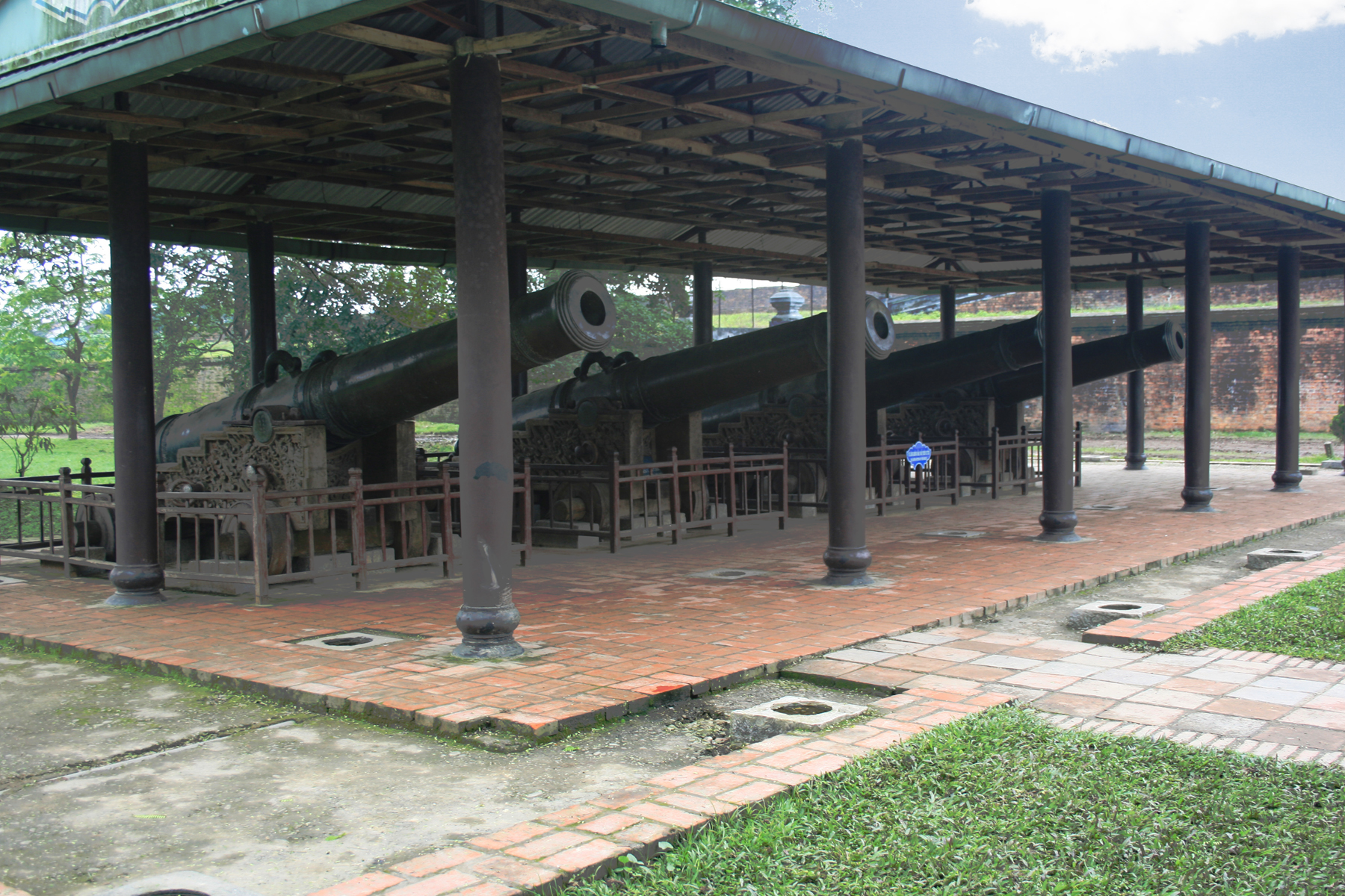 Four cannons named Spring, Summer, Autumn, Winter in the set of nine holy cannons in Imperial City of Huế